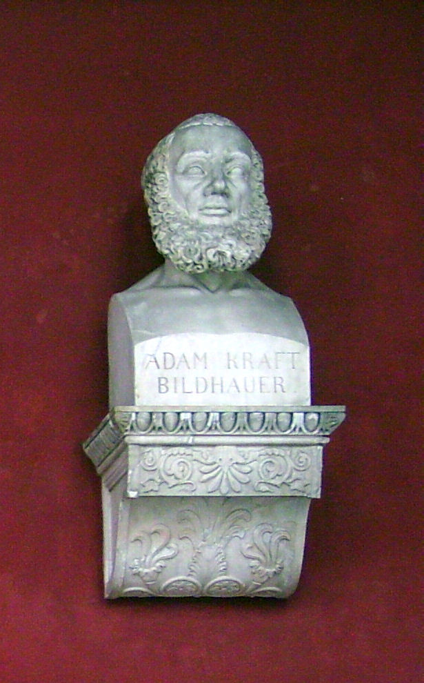 Bust of Adam Kraft at Ruhmeshalle ("Hall of fame"), München, Germany. Picture taken by myself: Dominik Hundhammer, München, 27 March 2006.